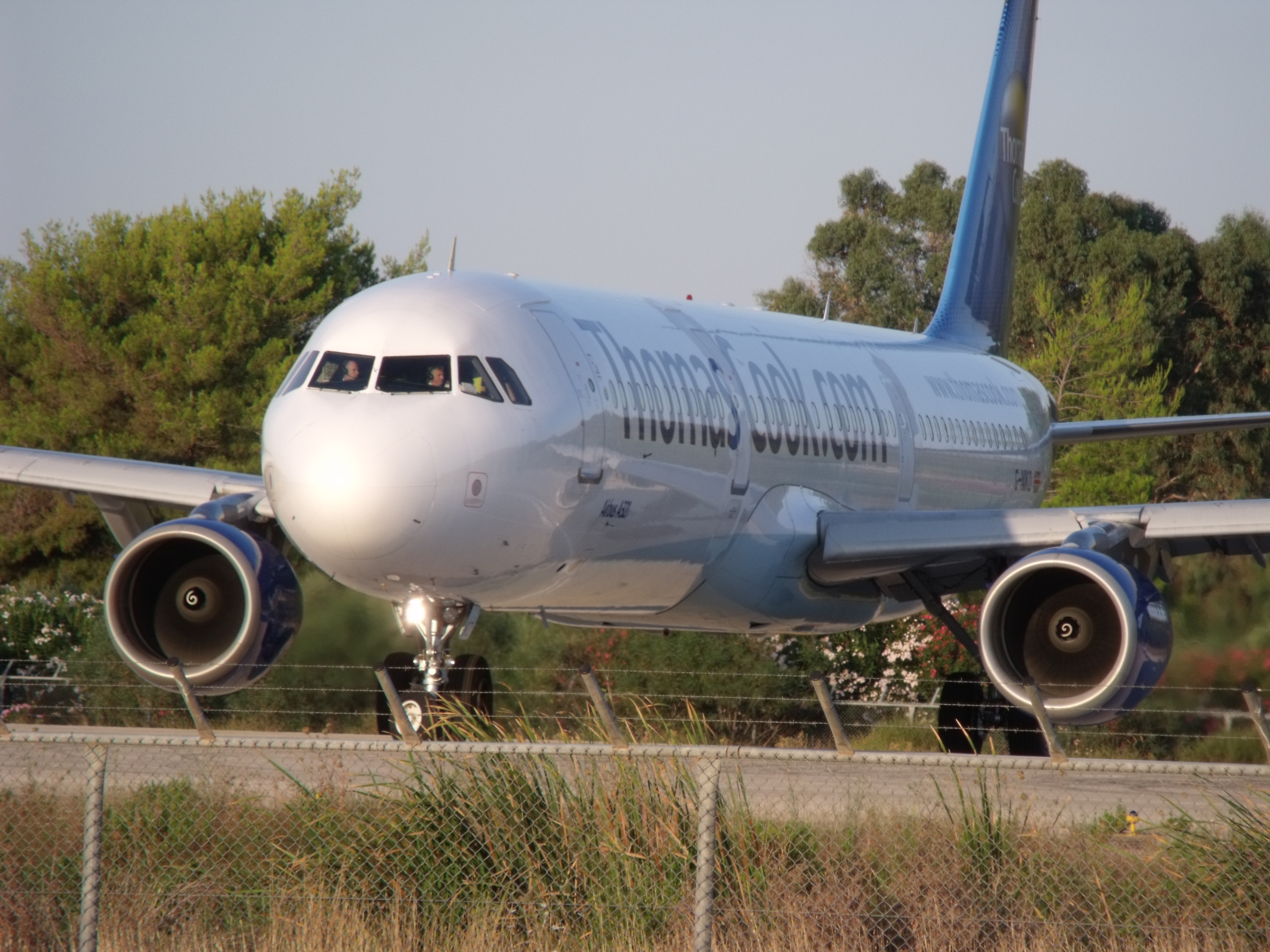 Thomas Cook A.321 G-NIKO taken from the threshold at Zante Airport